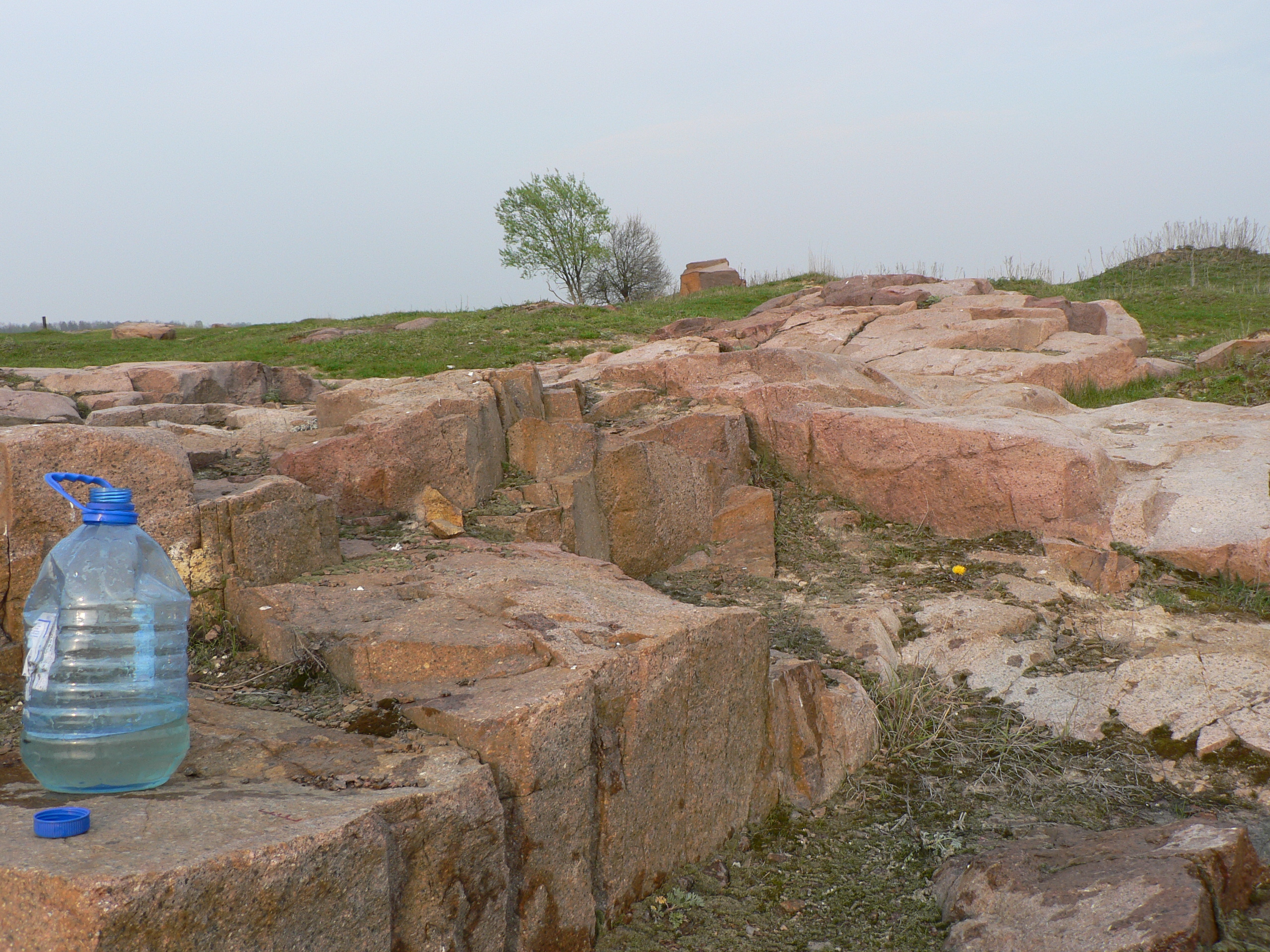 Outcrop of the quartz porphyry nearby Krasylivkavillage, Ovruch ridge, Ukraine